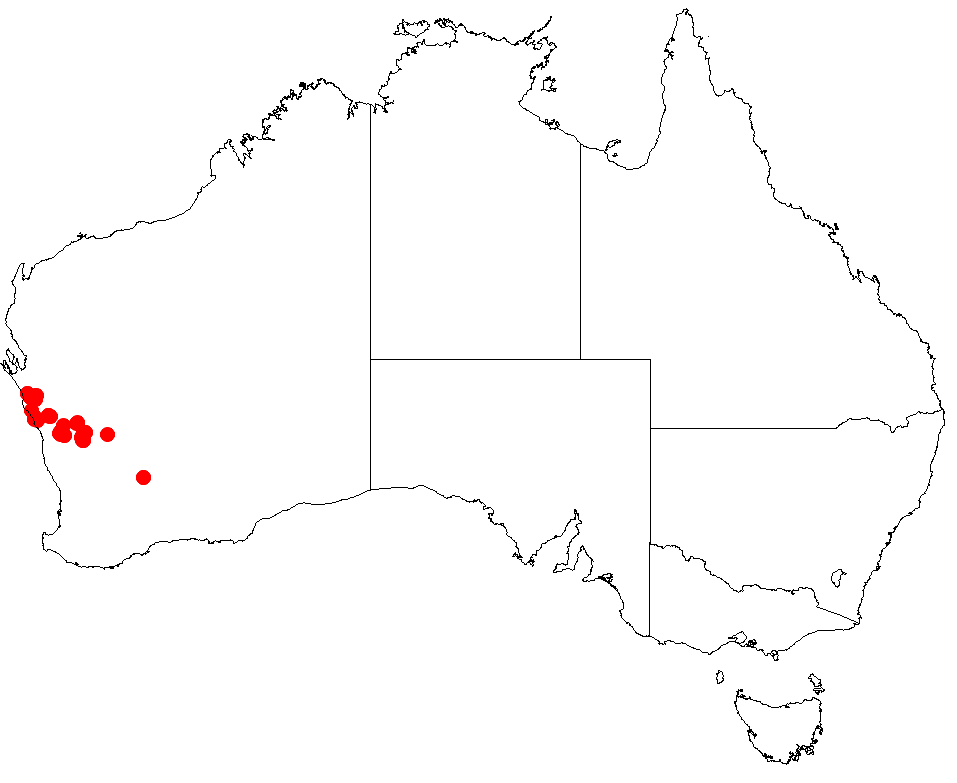 Persoonia hexagona Occurrence data downloaded from Australasian Virtual Herbarium on 30 October 2018 from